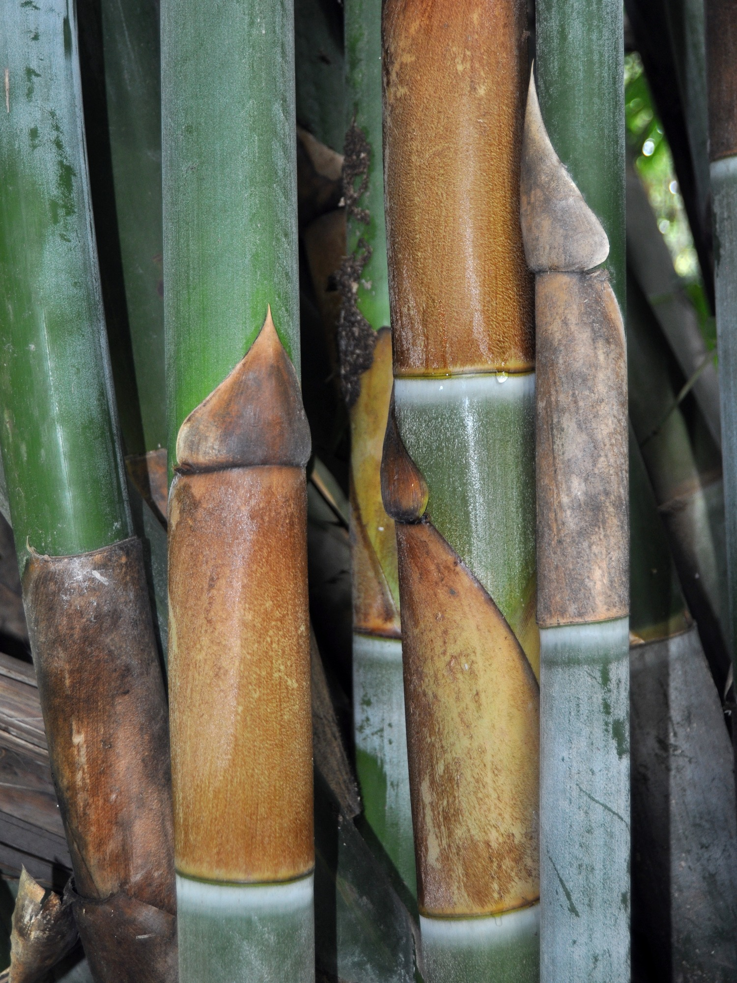 Sacred Bali bamboo, Schizostachyum brachycladum young culms. From Bogor, West Java, Indonesia.